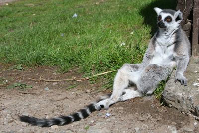 Lemur relaxing at Lemur Land, Blair Drummond Safari Park